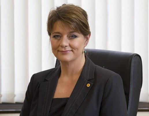 Portrait of Leanne Wood AM, 2016